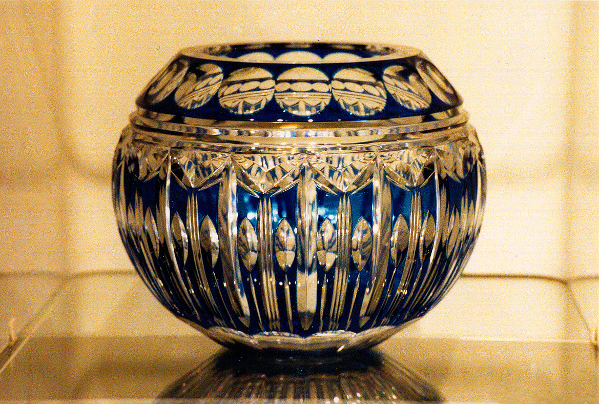 Seraing (Belgium), Val-Saint-Lambert crystal manufacture show-room - Art Deco design vase in cut crystal.